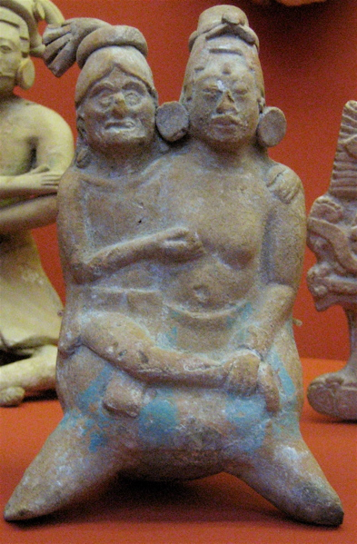 Mexico, Campeche, Jaina, Maya Couple in the Form of a Whistle, A.D. 600-900 Musical instrument, Ceramic with post-fire applied pigment, 6 1/4 x 4 in. (15.88 x 10.16 cm) Gift of Constance McCormick Fearing (M.86.311.4) Wikipedia Loves Art at the Los Angeles County Museum of Art This photo of item # M.86.311.4 at the Los Angeles County Museum of Art was contributed under the team name "artifacts" as part of the Wikipedia Loves Art project in February 2009. Los Angeles County Museum of Art The original photograph on Flickr was taken by Beesnest McClain—please add a comment to the original Flickr page whenever a use has been made on Wikipedia or another project. Project galleries on Flickr: this institution, this team